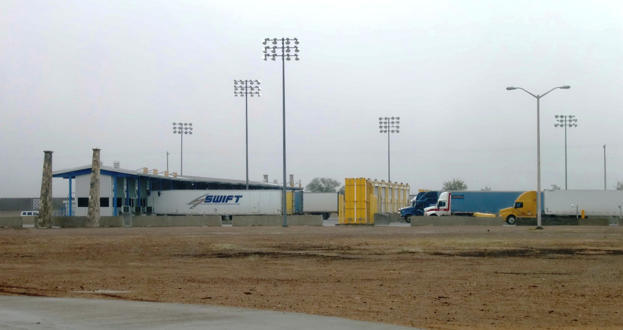 Primary inspection lanes of the Laredo World Trade Port of Entry